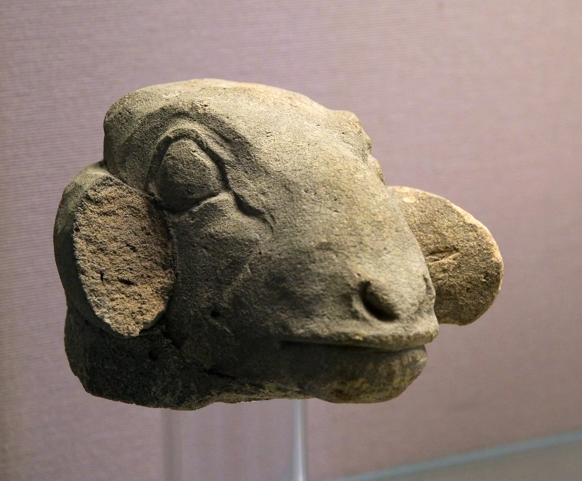 Head of a ewe, baked clay, Late Uruk Period, 3300-3000 BC. Probably from the decoration of a temple. British Museum, room 56, ME 132092.